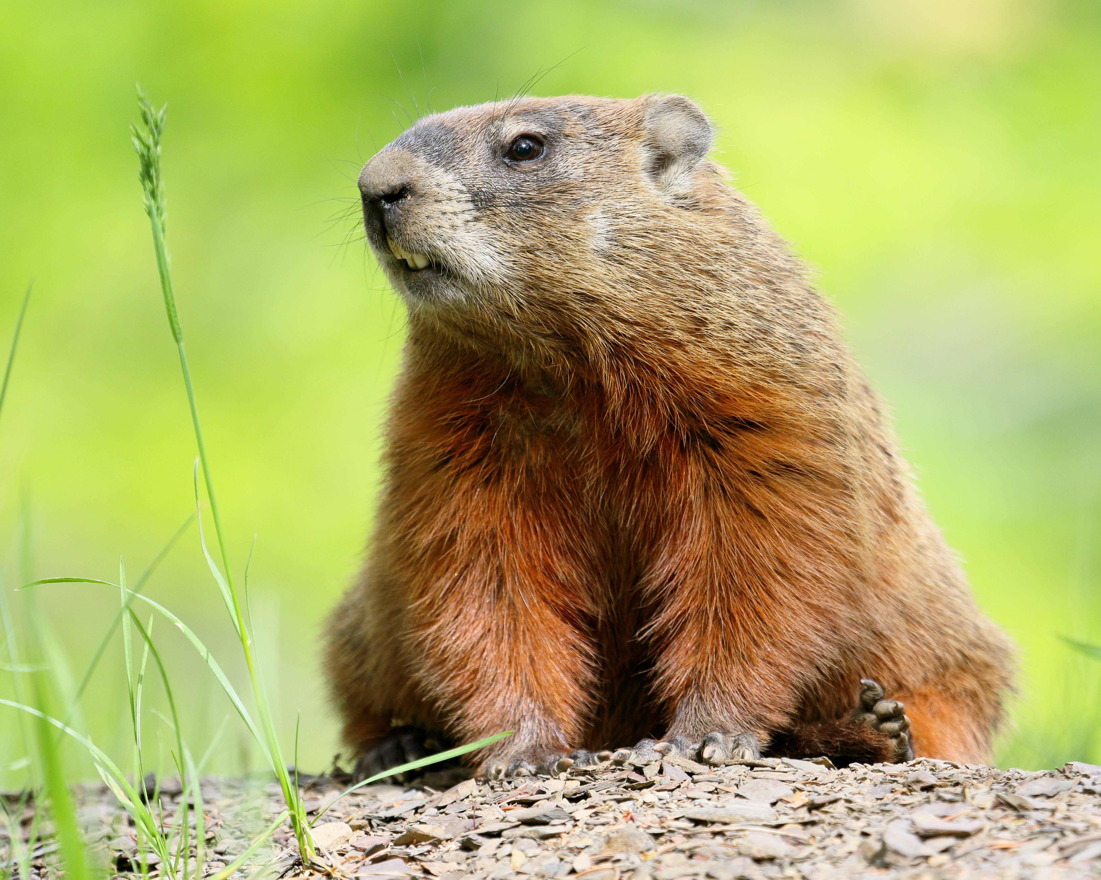 Groundhog (Marmota monax) on Laval University campus, Quebec, Canada